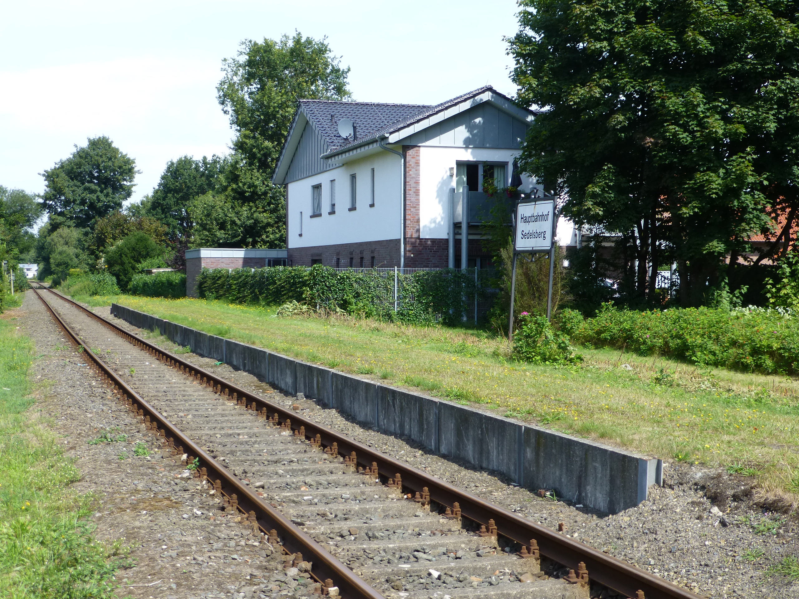 Sedelsberg, Saterland, Lower Saxony